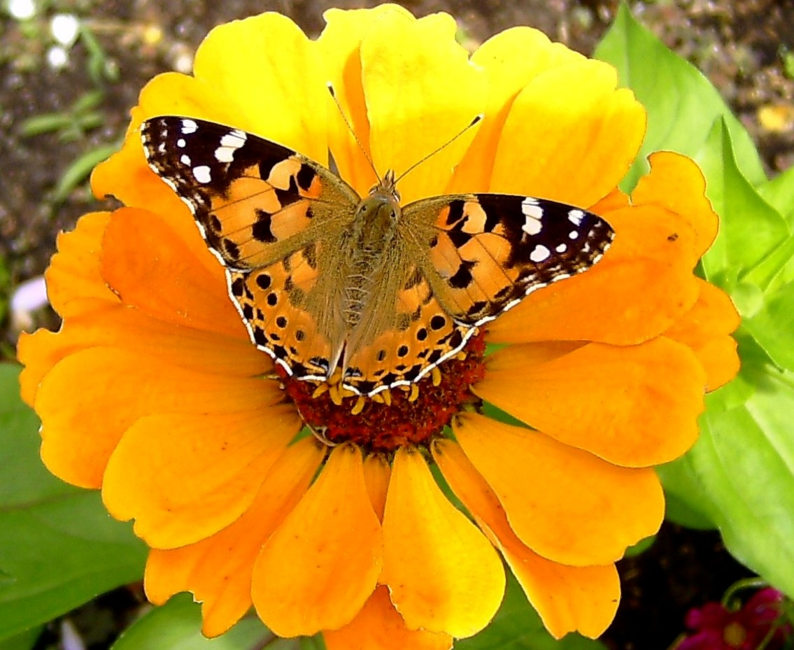 Vanessa cardui, Frankfurt am Main, Germany